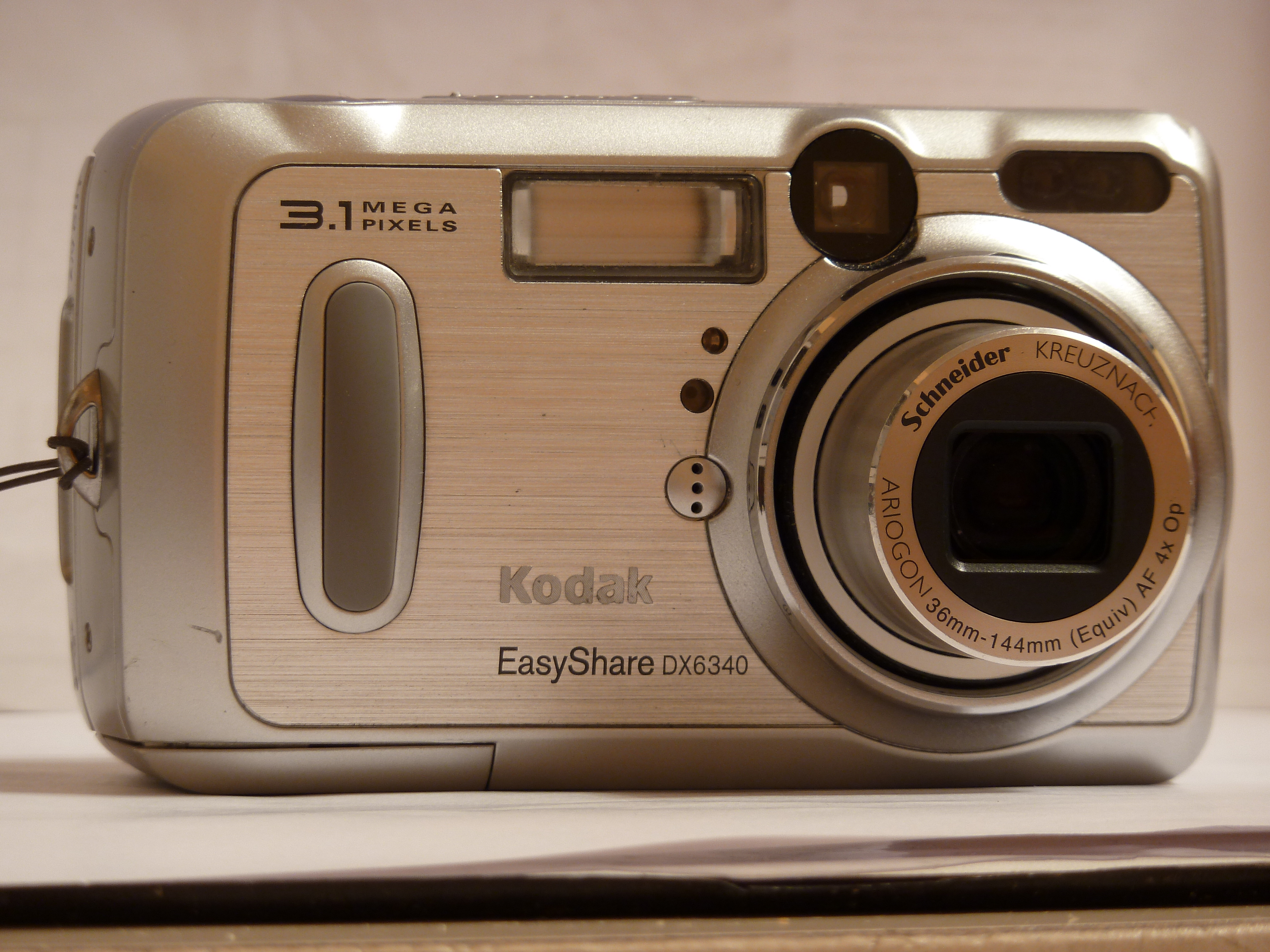 The Kodak EasyShare DX6340.